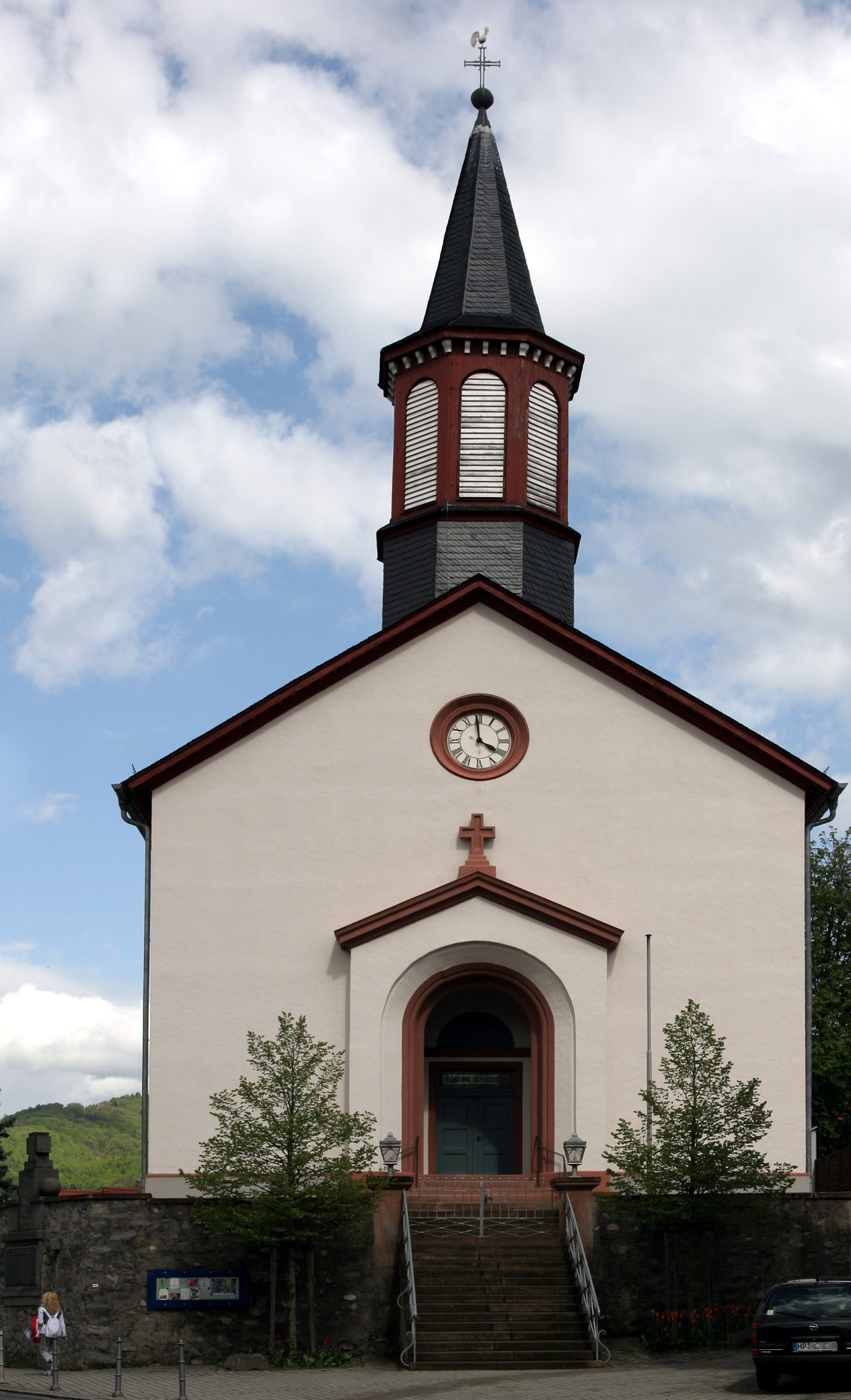 The Saint Anna Church in Bensheim-Gronau (Hesse, Germany)